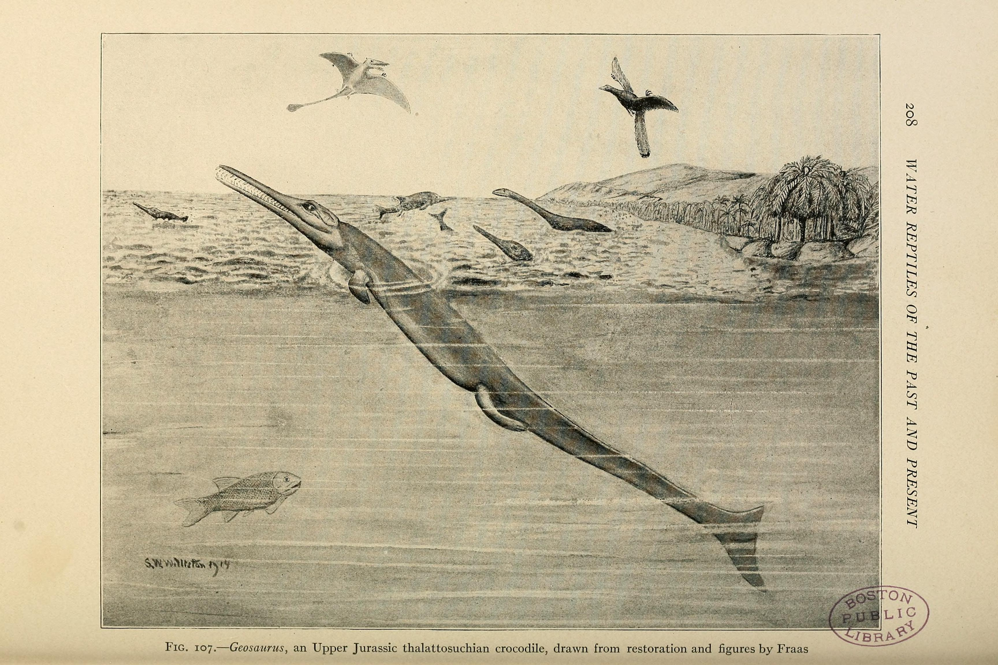 Identifier: waterreptilesofp1914will Title: Water reptiles of the past and present Year: 1914 (1910s) Authors: Williston, Samuel Wendell, 1851-1918 Subjects: Aquatic reptiles Publisher: Chicago, Ill., The University of Chicago Press Text Appearing Before Image: ' Text Appearing After Image: '